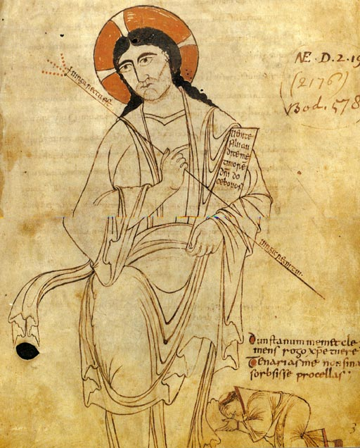 St Dunstan praying before Christ. The text reads Dunstanum memet clemens rogo Christe tuere, Tenarias me non sinas sorbsisse procellas (Remember, I beg you, merciful Christ, to protect Dunstan, and do not permit the storms of the underworld to swallow me up)